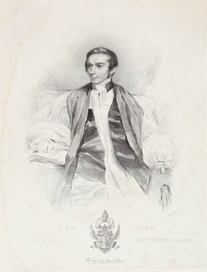 Aubrey George Spencer, Lord Bishop of Newfoundland, crayon lithograph on chine colle on wove paper. Inscribed in the stone. l.c.; THE LORD / BISHOP OF NEWFOUNDLAND. / [coat-of-arms] / Aubrey Newfoundland [facsimile signature] / Printed by P. Gauci, 9 North Crest. Bedfd. Sqe. l.l.; F. Rochard, Pinxt.; l.r.; On Stone by M. Gauci.